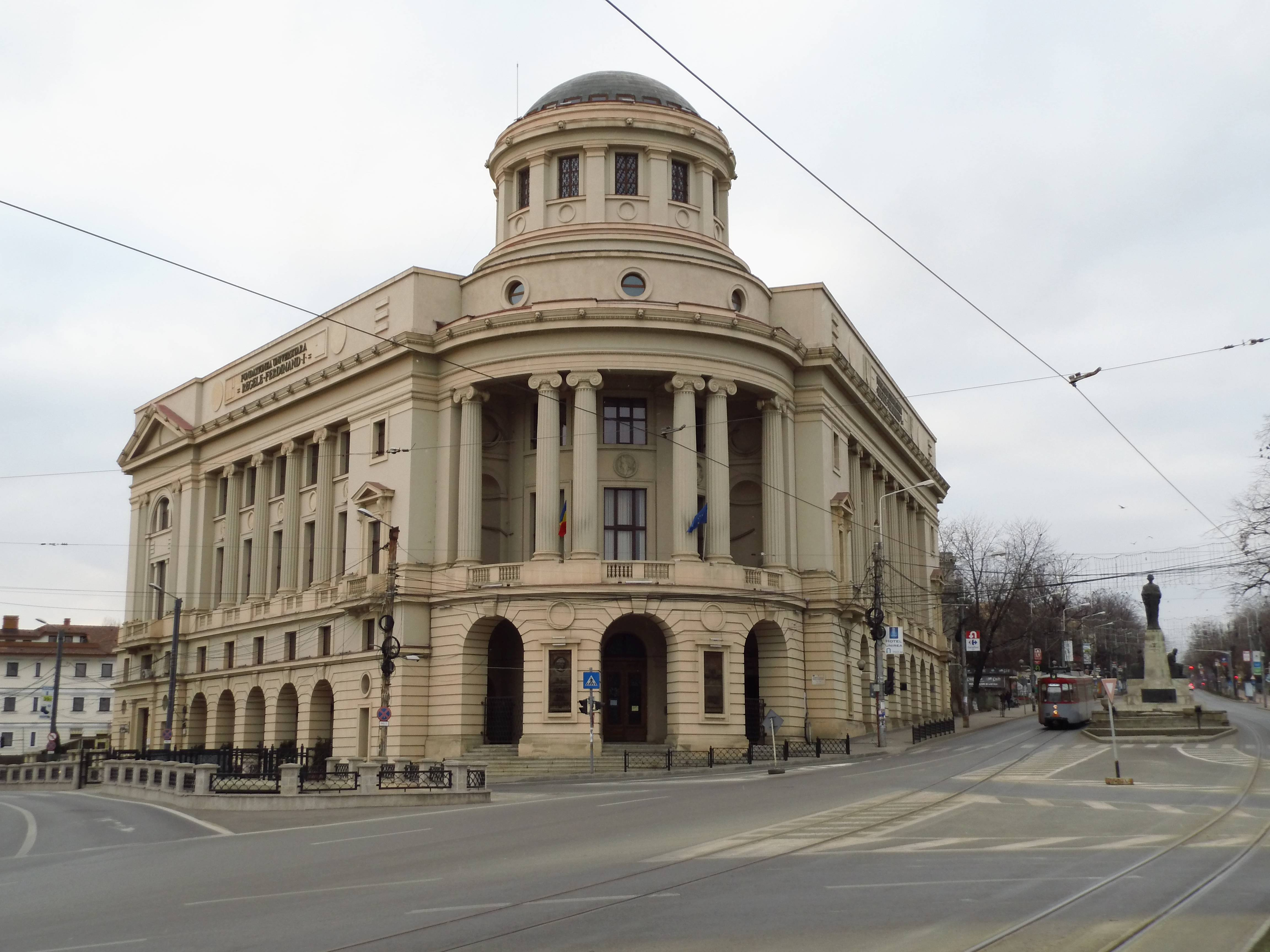 Central University Library Jan 1st 2016